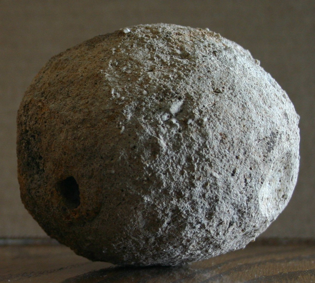 One of the "round rocks" believed to have been created by a meteoric impact which created the Weaubleau-Osceola structure. Rock was found in an area of Osceola, Missouri where they can seen frequently on the ground. Source: Photo by Harmil, (c) 2005. Self-licensed, see below.